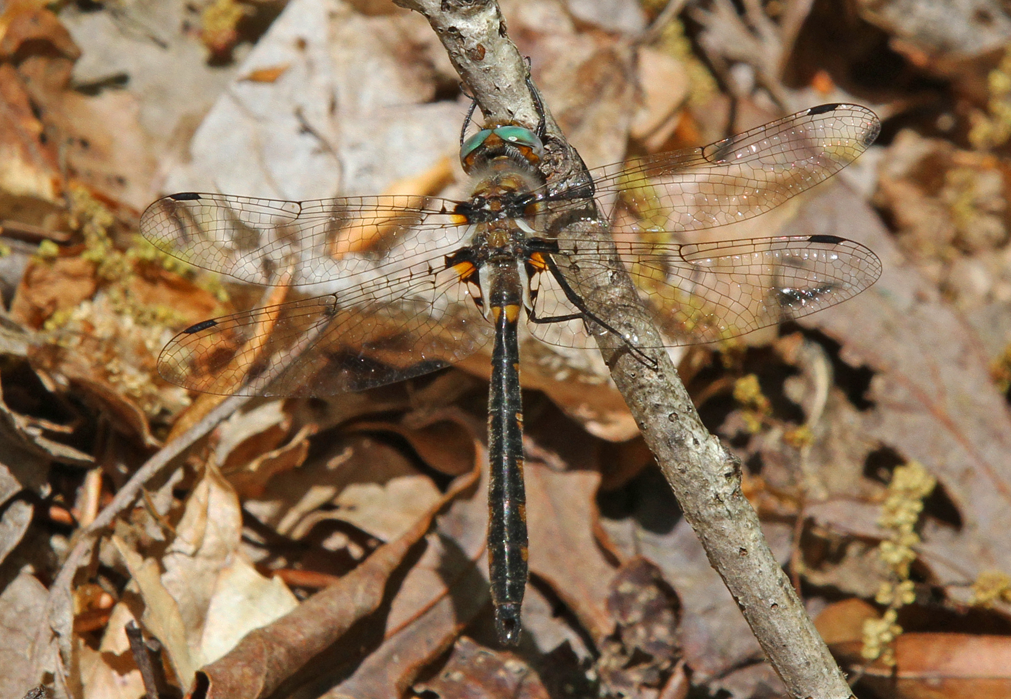 Uhler's Sundragon - Helocordulia uhleri, Meadowood Farm SRMA, Mason Neck, Virginia. Yesterday I was almost 200 miles away from home, and was delighted to see my first ever Uhler's Sundragon. Today I was 6 miles away from home and saw another one. Life is good!